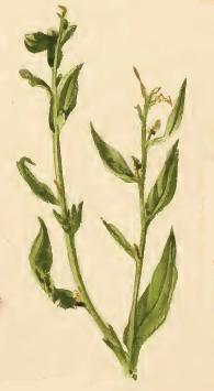 Stainton’s Natural History of the Tineina (1855–1873): Ethmia dodecea